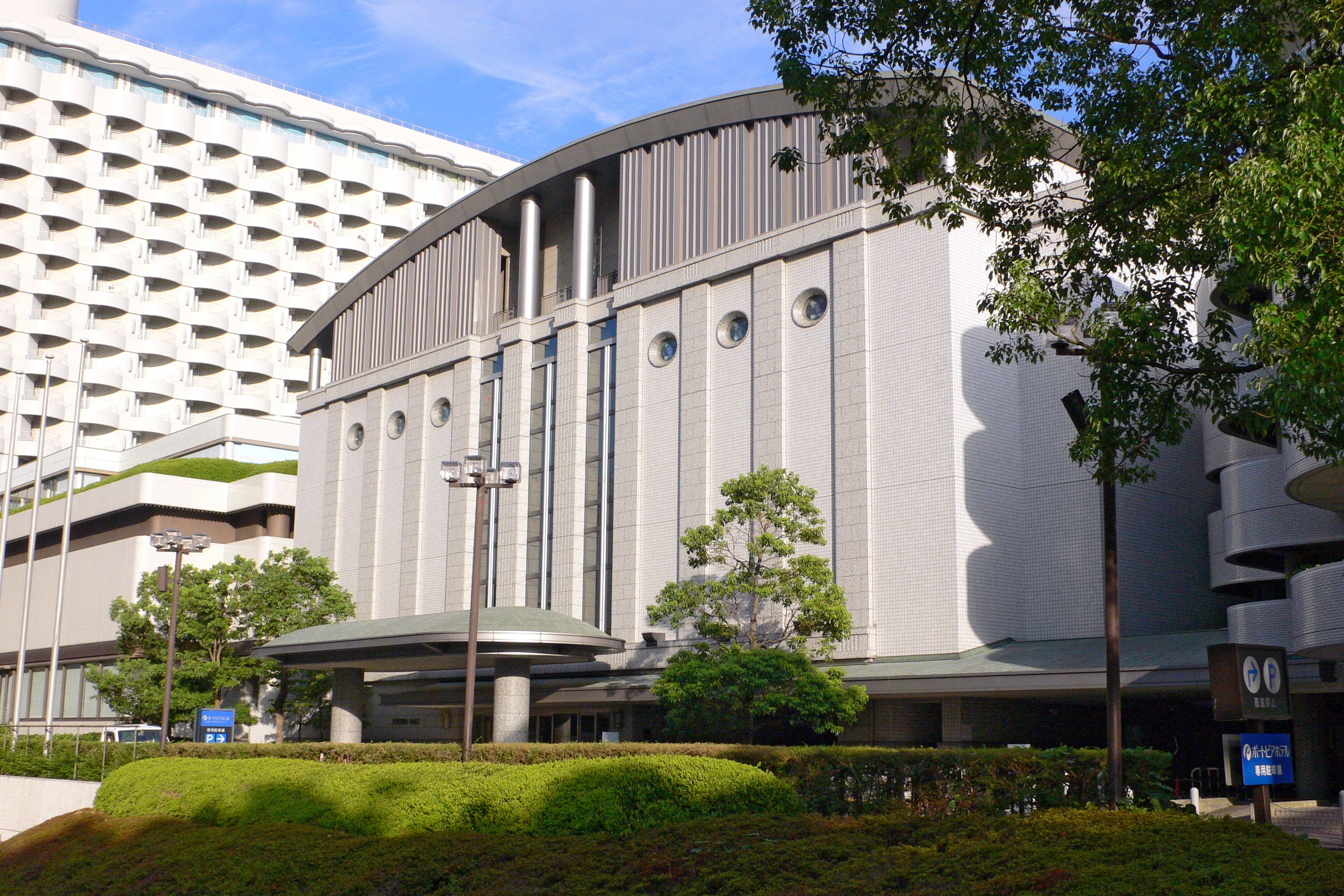 Portopia Hall of Portopia Hotel in Kobe, Hyogo prefecture, Japan